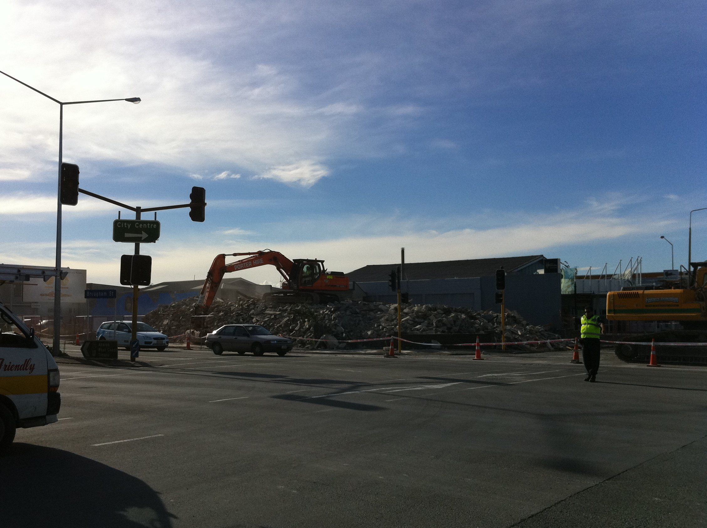 Demolition of the Sydenham Heritage Church following the 2011 Christchurch Earthquake. Corner Colombo and Brougham Streets, Christchurch, New Zealand